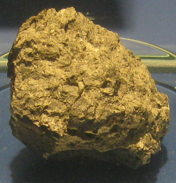 ALH84001 Meteorite, on display at Smithsonian Museum of Natural History, Washington, DC